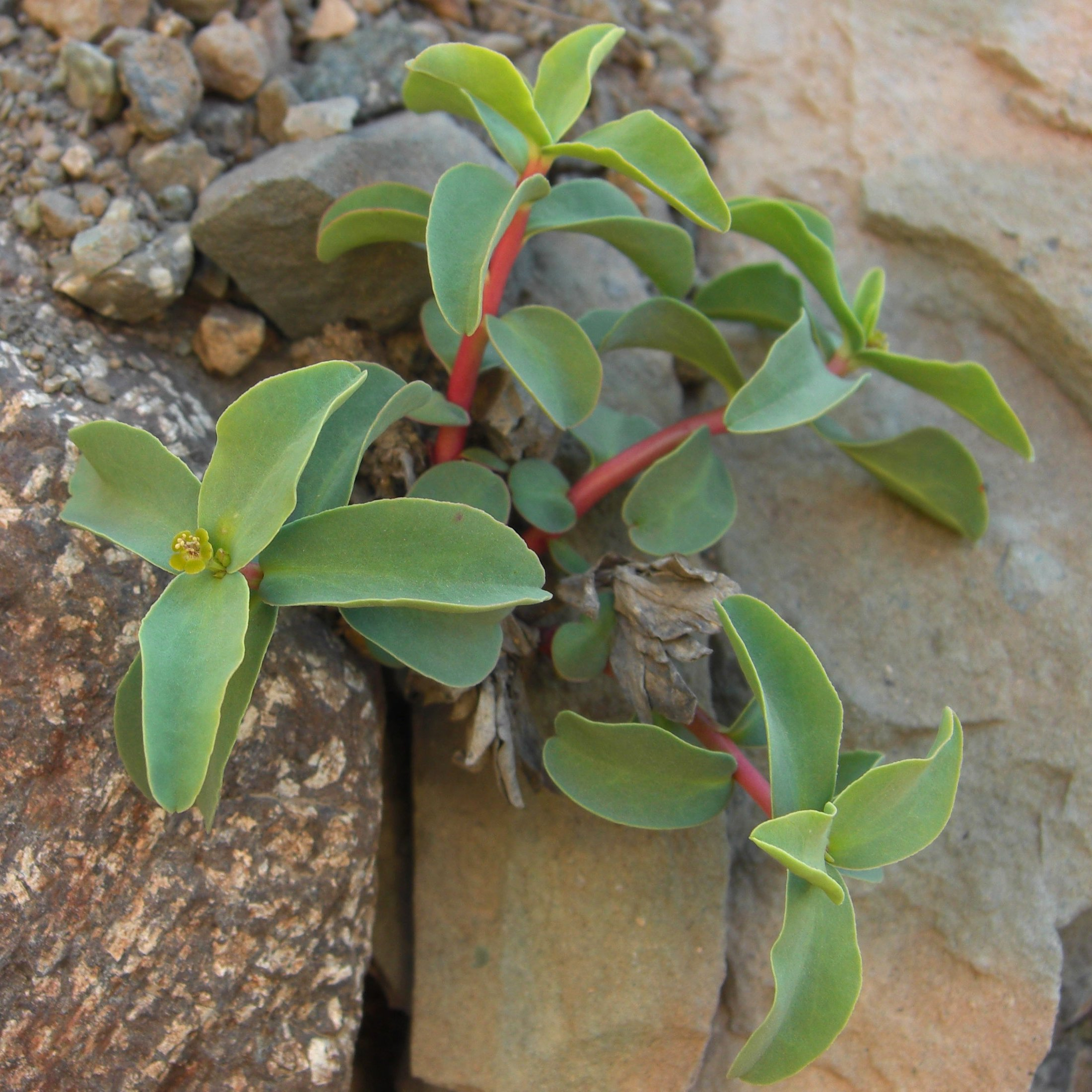 Euphorbea portulacoides 20081121.2 mountains east of Santiago, Chile The 1896 flora appears to be missing this family, however there is a nice photo of this on , so I'm fairly confident.